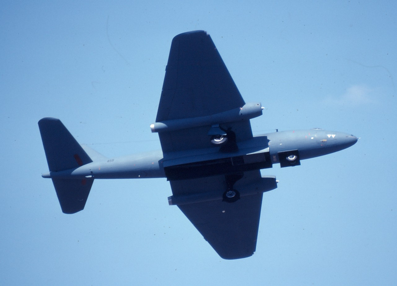 Canberra T.4 no. 458 at AFB Ysterplaat, during the SAAF anniversary air show